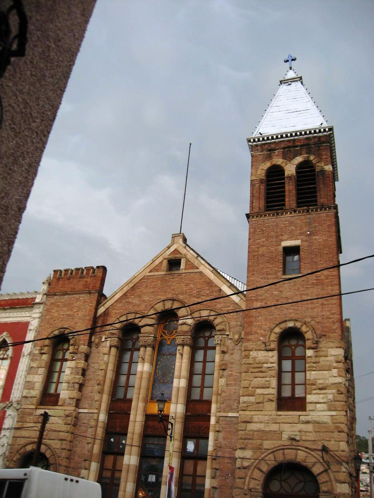 Methodist Church of Mexico located in the historic center of Pachuca Mexico